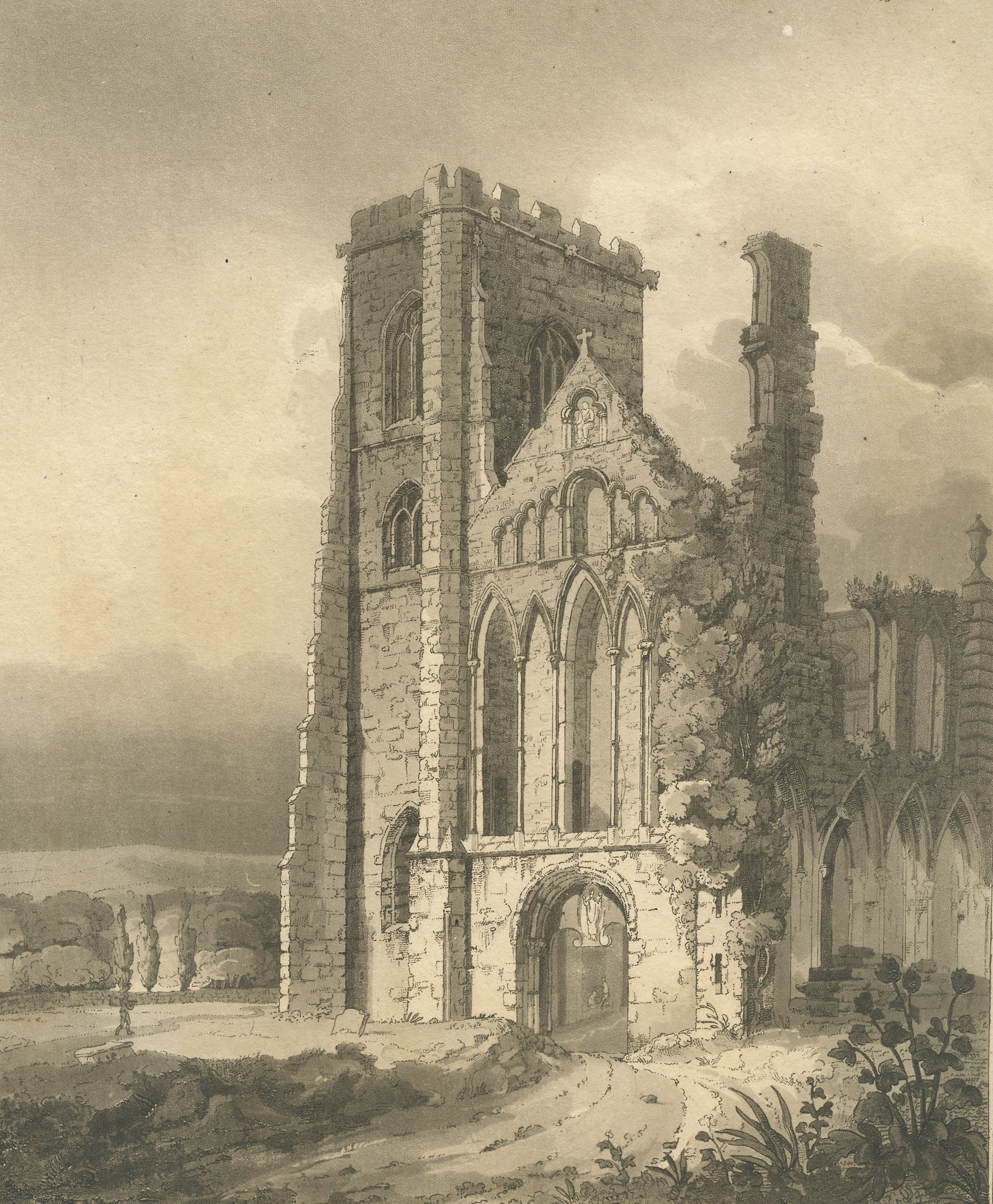 Aquatint of West Front of Llandaff Cathedral